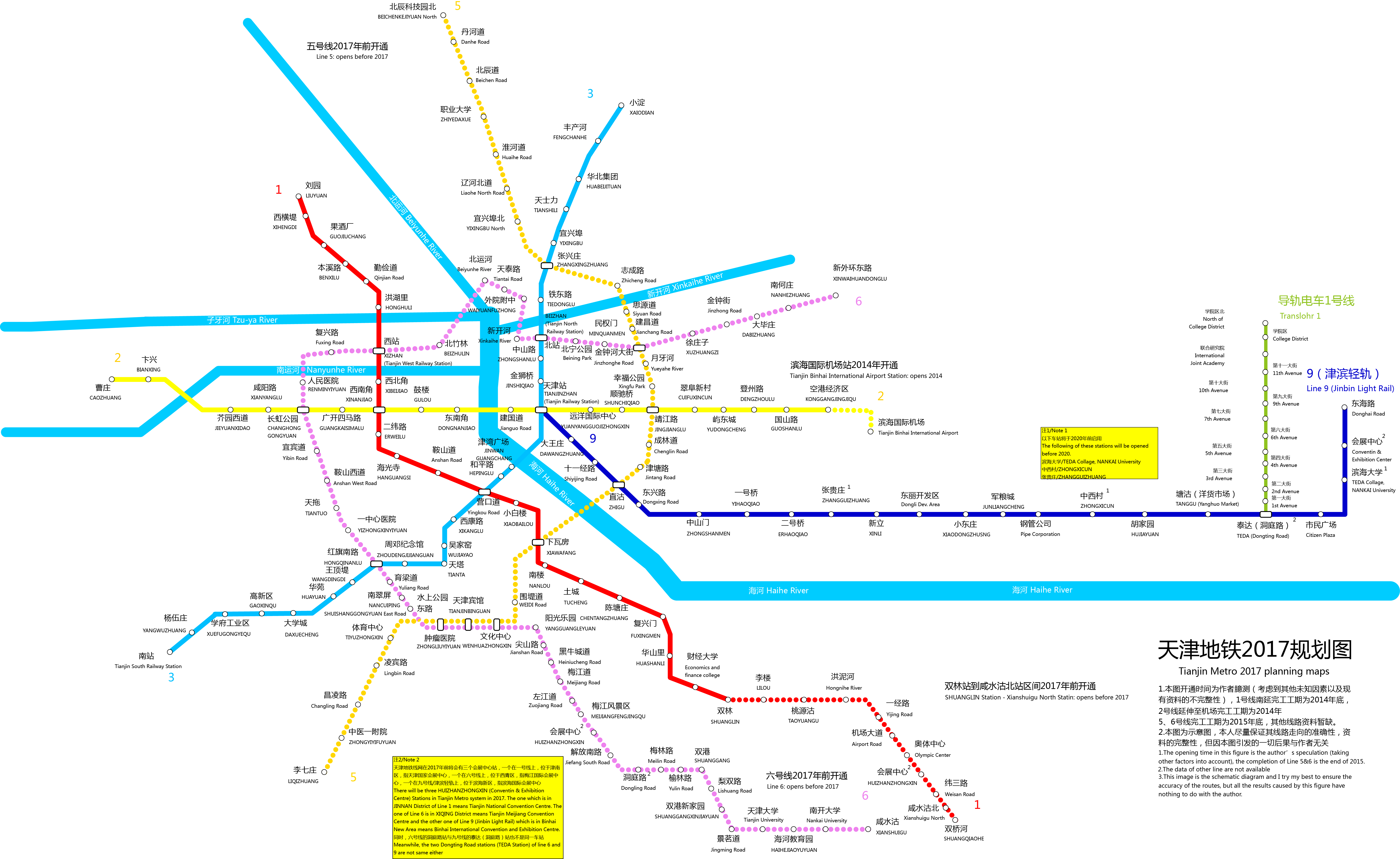 The plans of Tianjin Metro